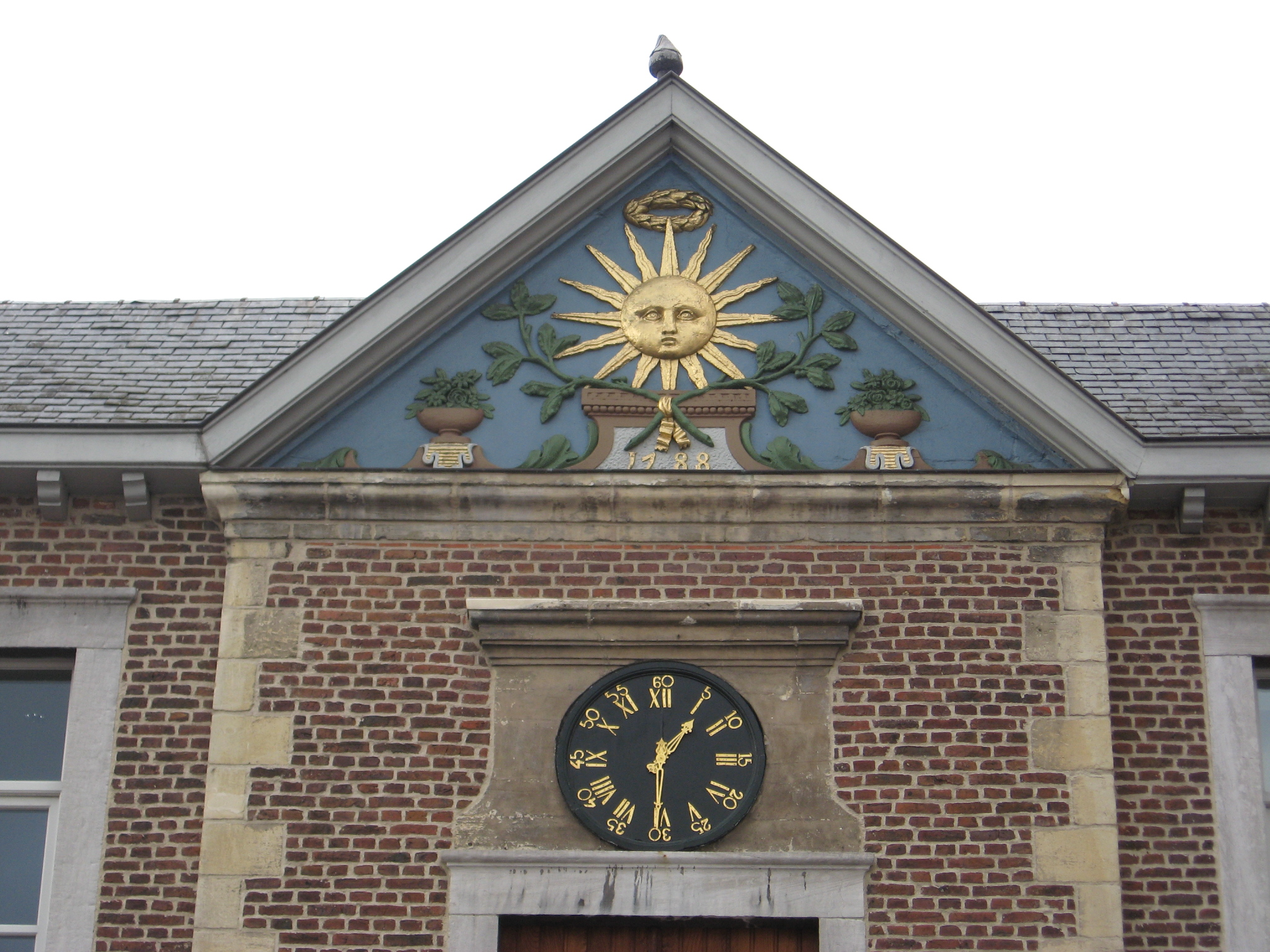 Former town hall of Zonhoven